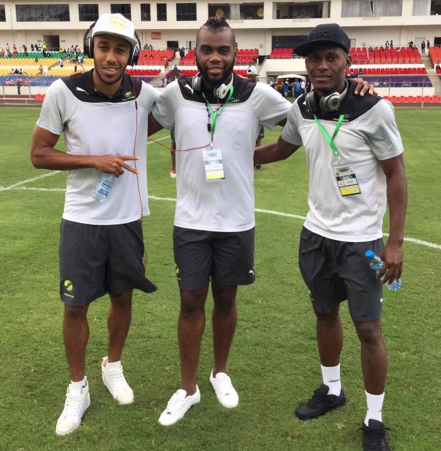 Gilles Mbang Ondo posing with Gabon players Johann Lengoualama and Pierre-Emerick Aubameyang. ; Omar Bongo Stadium